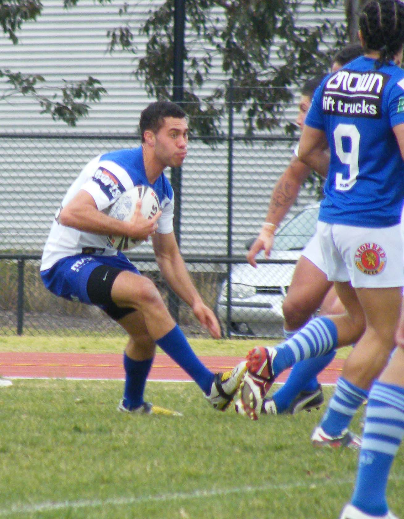 Canterbury winger Ryan Millard